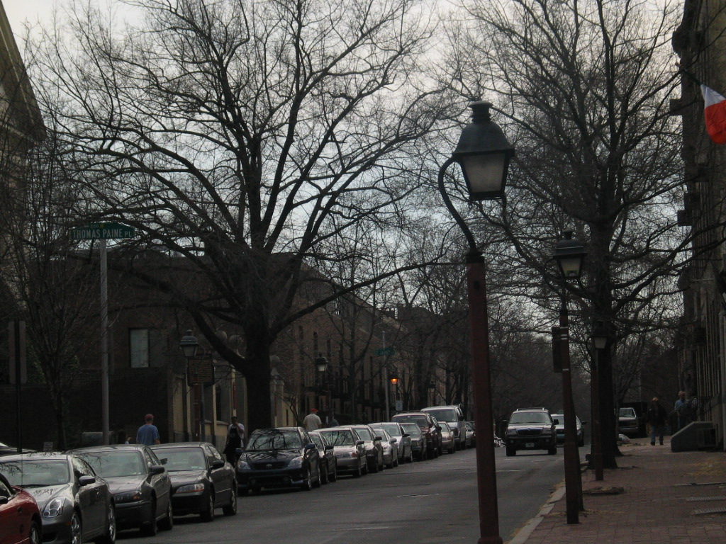 Quiet and elegant street in Society Hill, Philadelphia showing town houses designed by Architect Louis Sauer